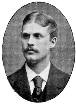 Image scanned from the book "Svenskt Porträttgalleri XX - Arkitekter, Bildhuggare, Målare m.fl. " ("Swedish Portrait Gallery XX - Architects, Sculptors, Painters, ") published 1901